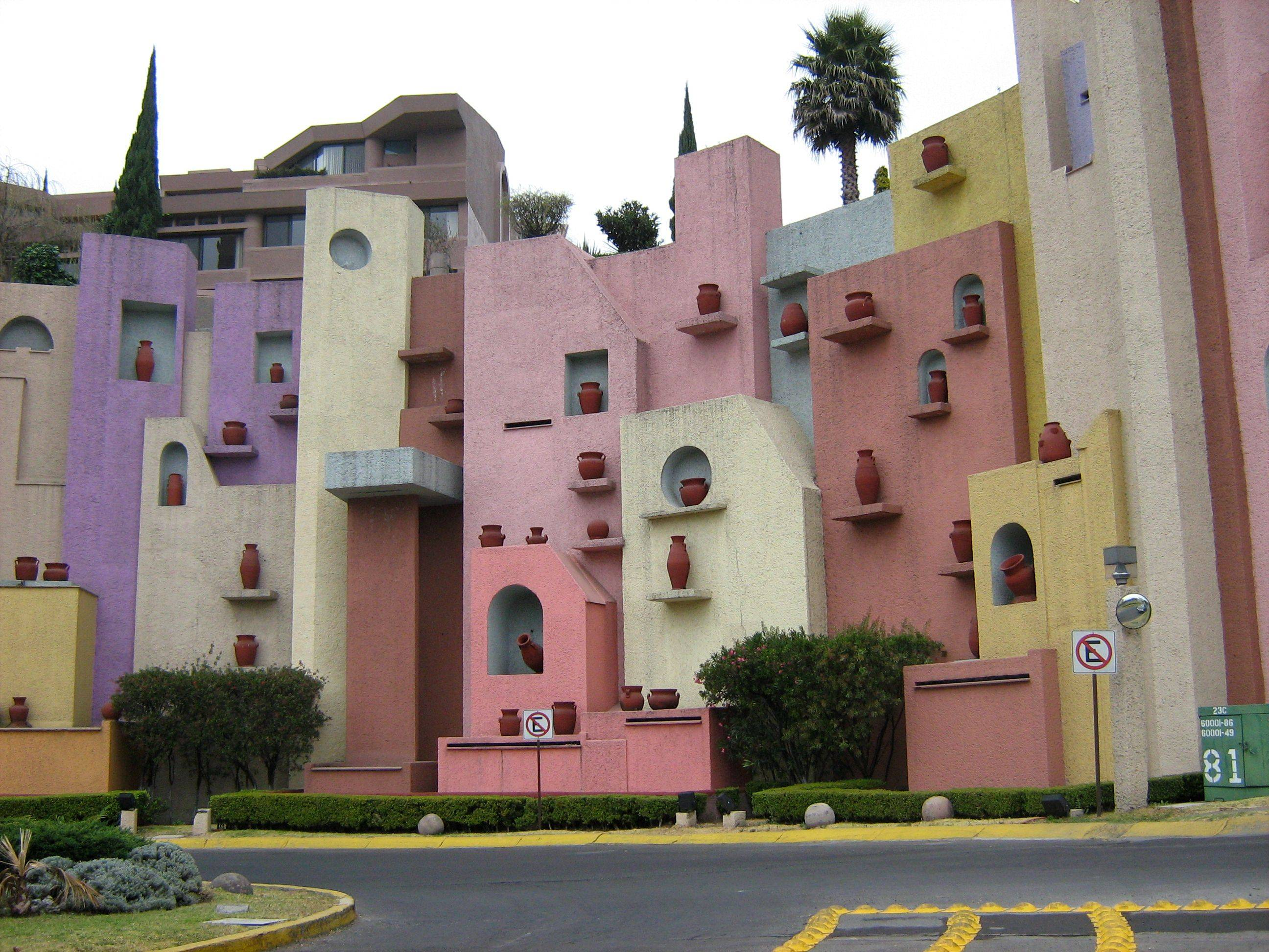 Mexican architecture, Mexico City, 2008.